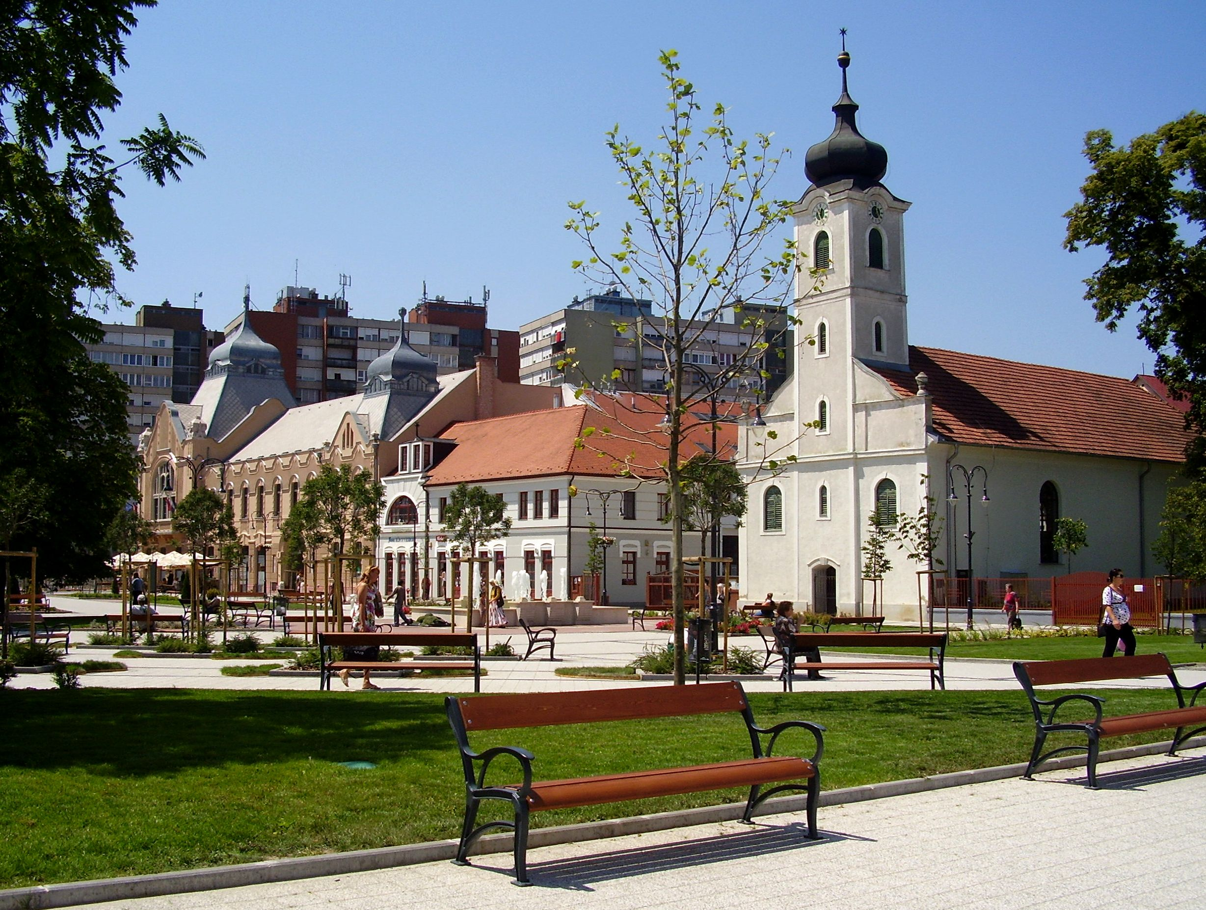 Gödöllő in Pest Country, Hungary.